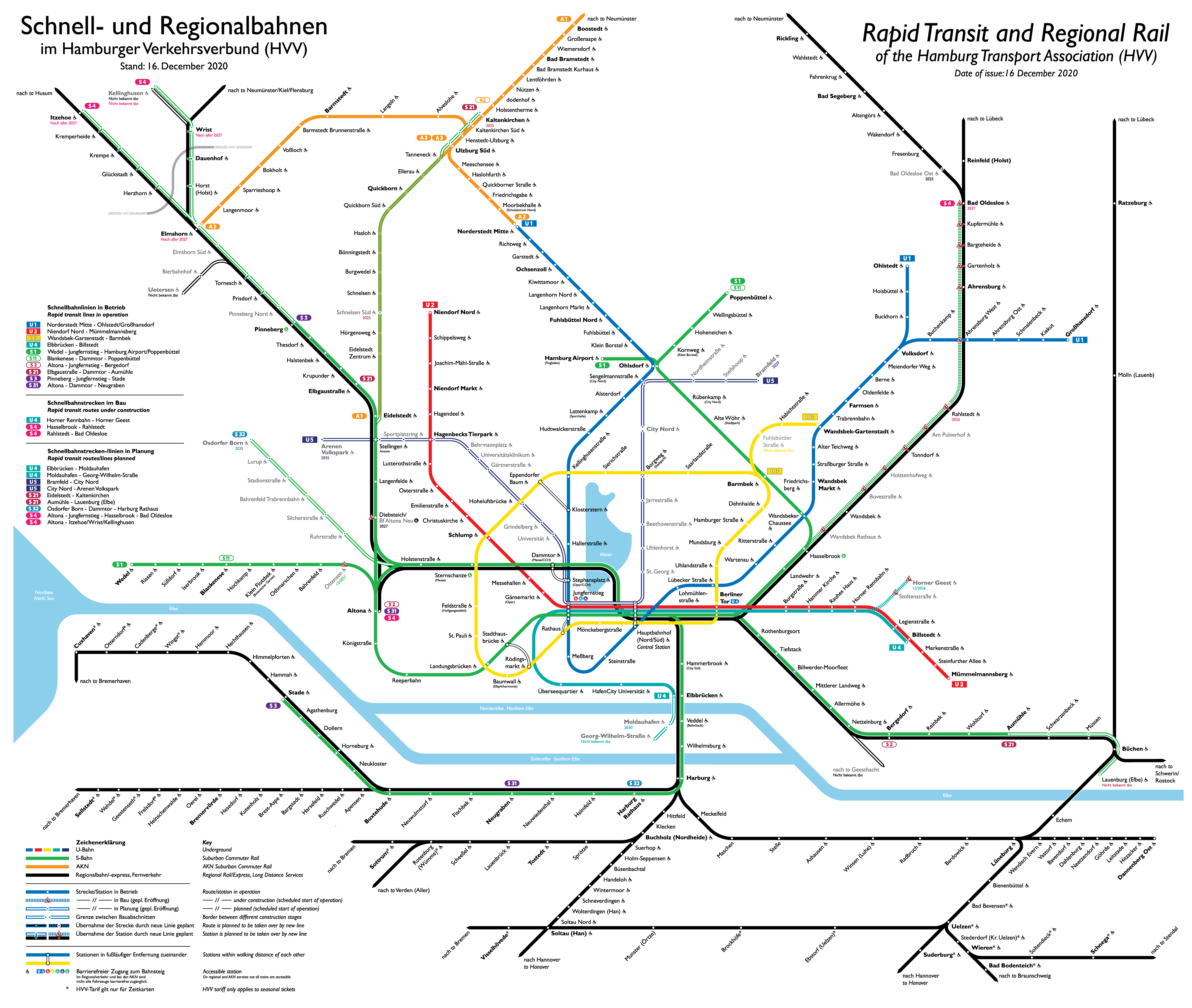 Schematic map of Hamburg's underground network including all current (as of June 2020) projects.